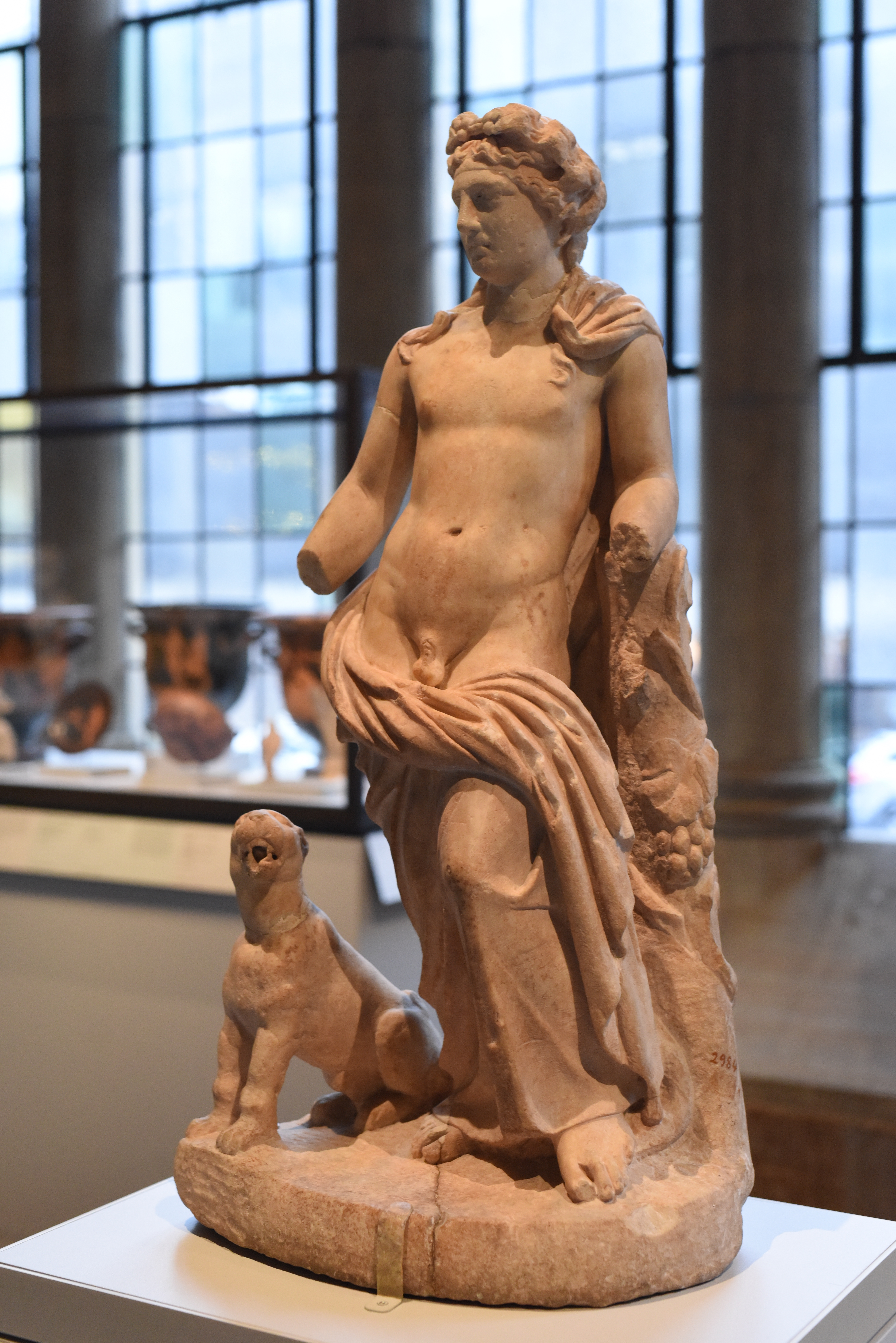 Yale Art Gallery Sculpture. The gallery is free and open to the public.